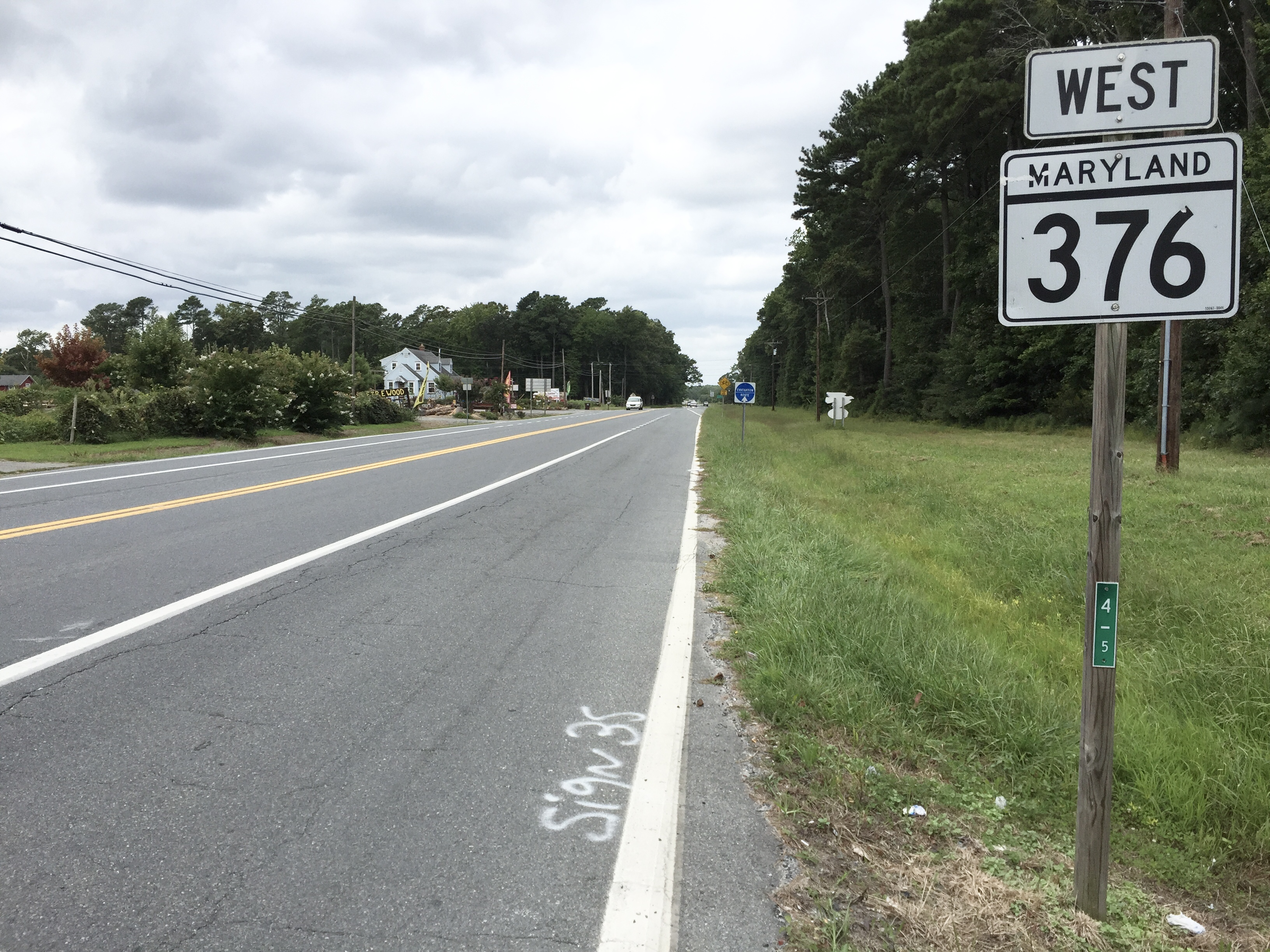 View west along Maryland State Route 376 (Assateague Road) at Maryland State Route 611 (Stephen Decatur Highway) in Lewis Corner, Worcester County, Maryland